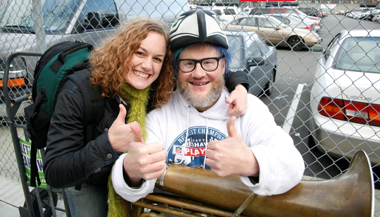 Edward McMichael (right), well-known Tuba busker, was a staple at Seattle-area sports arenas, the opera house, etc. He was brutally murdered in 2008. This picture is on the sidewalk of Occidental Ave S., a bit south of King Street.